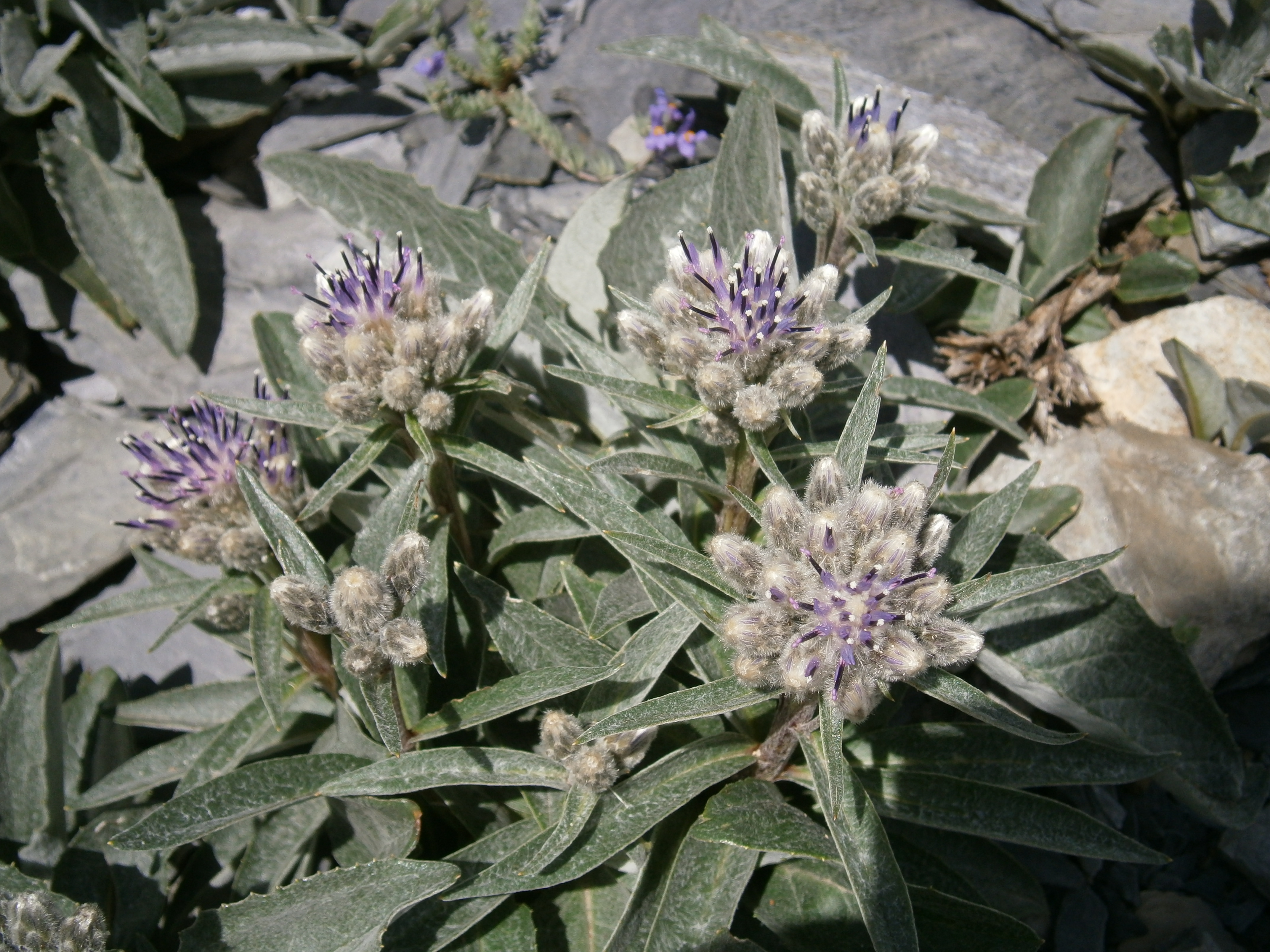 Saussurea alpina subsp. depressa in the Jardin Botanique Alpin du Lautaret